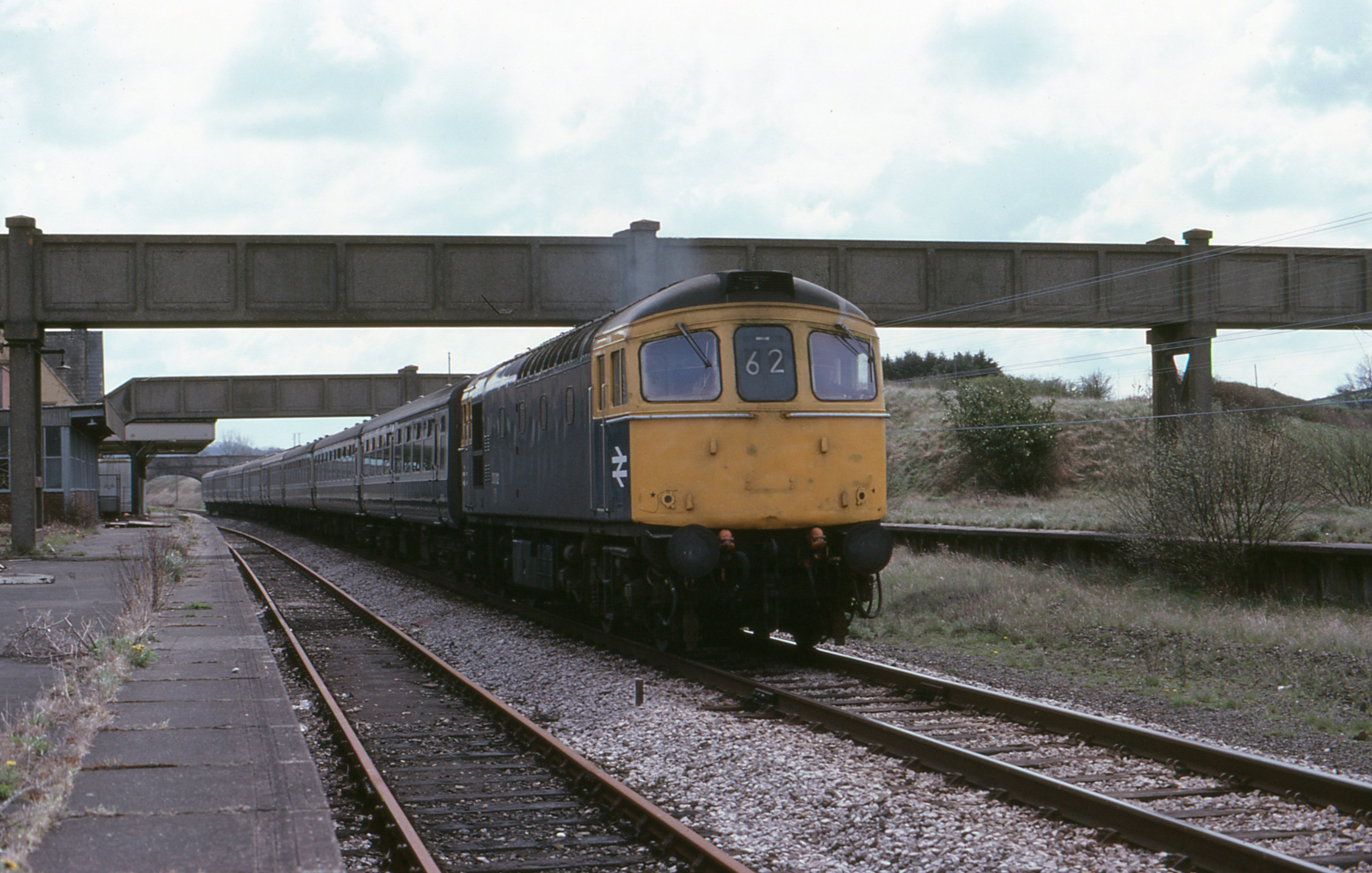 Class 33/0 No. 33 012 brings the 09.00 Waterloo - Exeter St. Davids train down through Seaton Junction station on what used to be the up fast line in steam days, now used for single line running. Captured on 28/4/1979. Camera: Olympus OM1 35mm SLR. Film: Kodachrome.